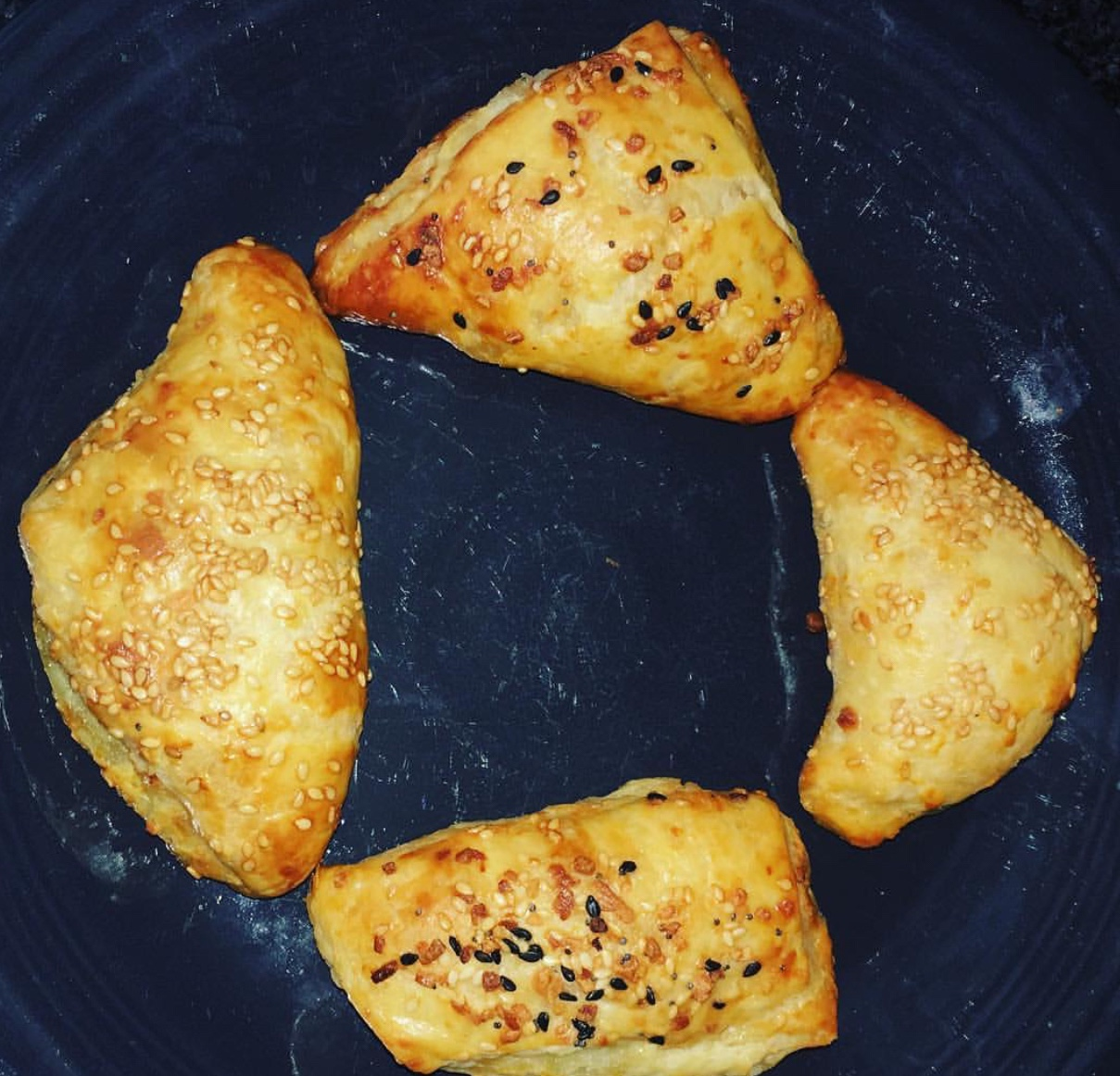 Bourekas arranged into a Star of David shape.